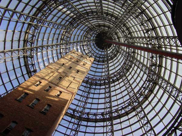 The Melbourne Central shot tower and iconic glass cone.